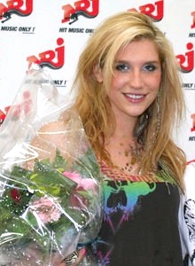 The singer Kesha.